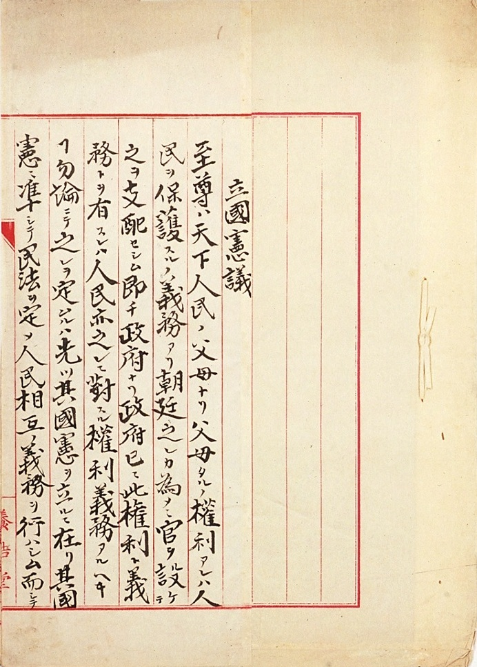 The Proposal for Drafting a Constitution (Rikkokukengi)